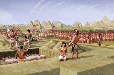 An illustration of the ritual sacrifice by strangulation of 53 of young women (aged 15 to 25) at the Mound 72 burial of an important personage, now referred to as the "Birdman" because of the falcon shaped arrangement of beads around his body. Mound 72 is a ridge-top mound at the Cahokia Mounds Site, a large Mississippian culture mound center located in present day Madison County, Illinois.